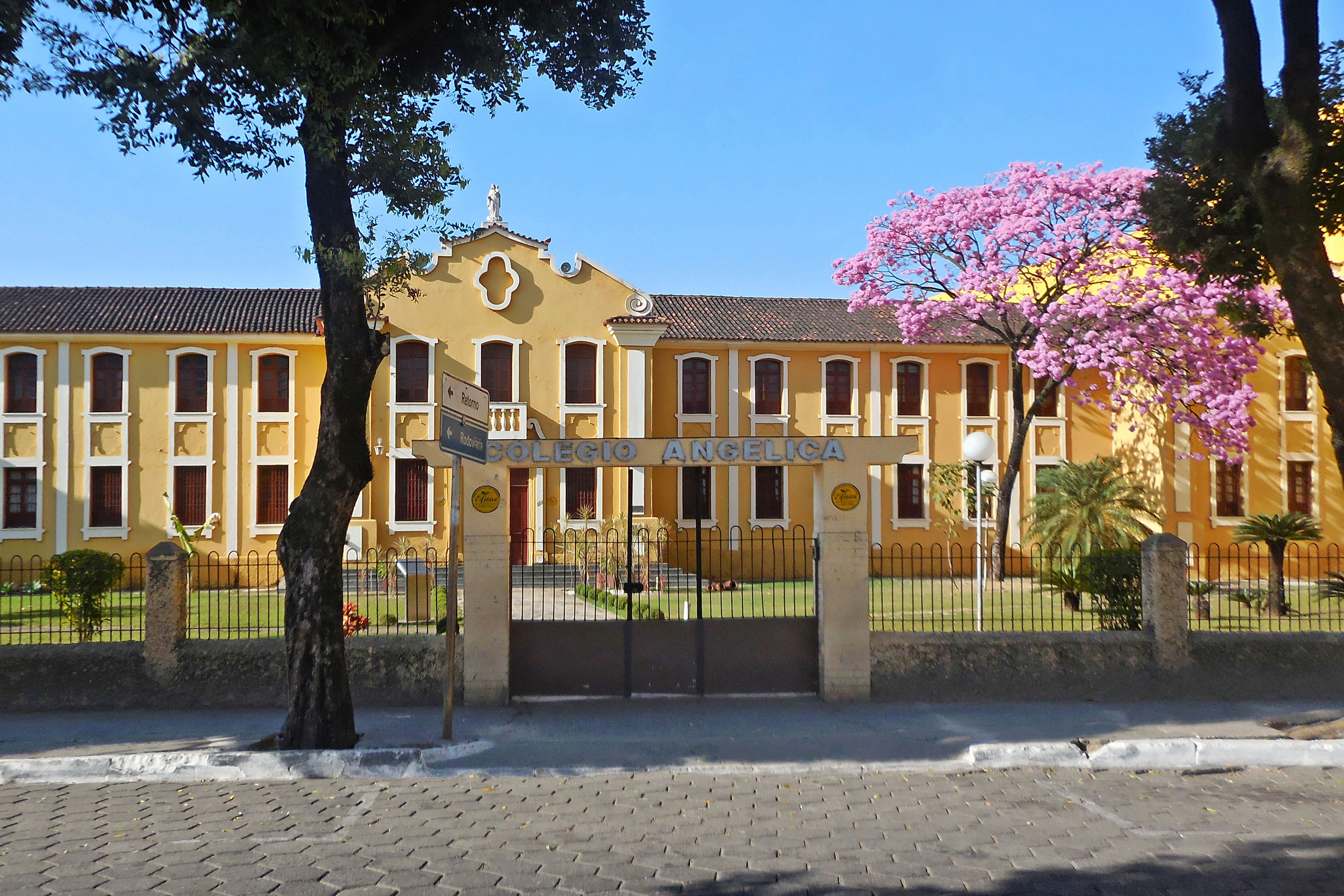 Main entrace of the Colégio Angélica (Angélica college), in Coronel Fabriciano, Minas Gerais, Brazil.